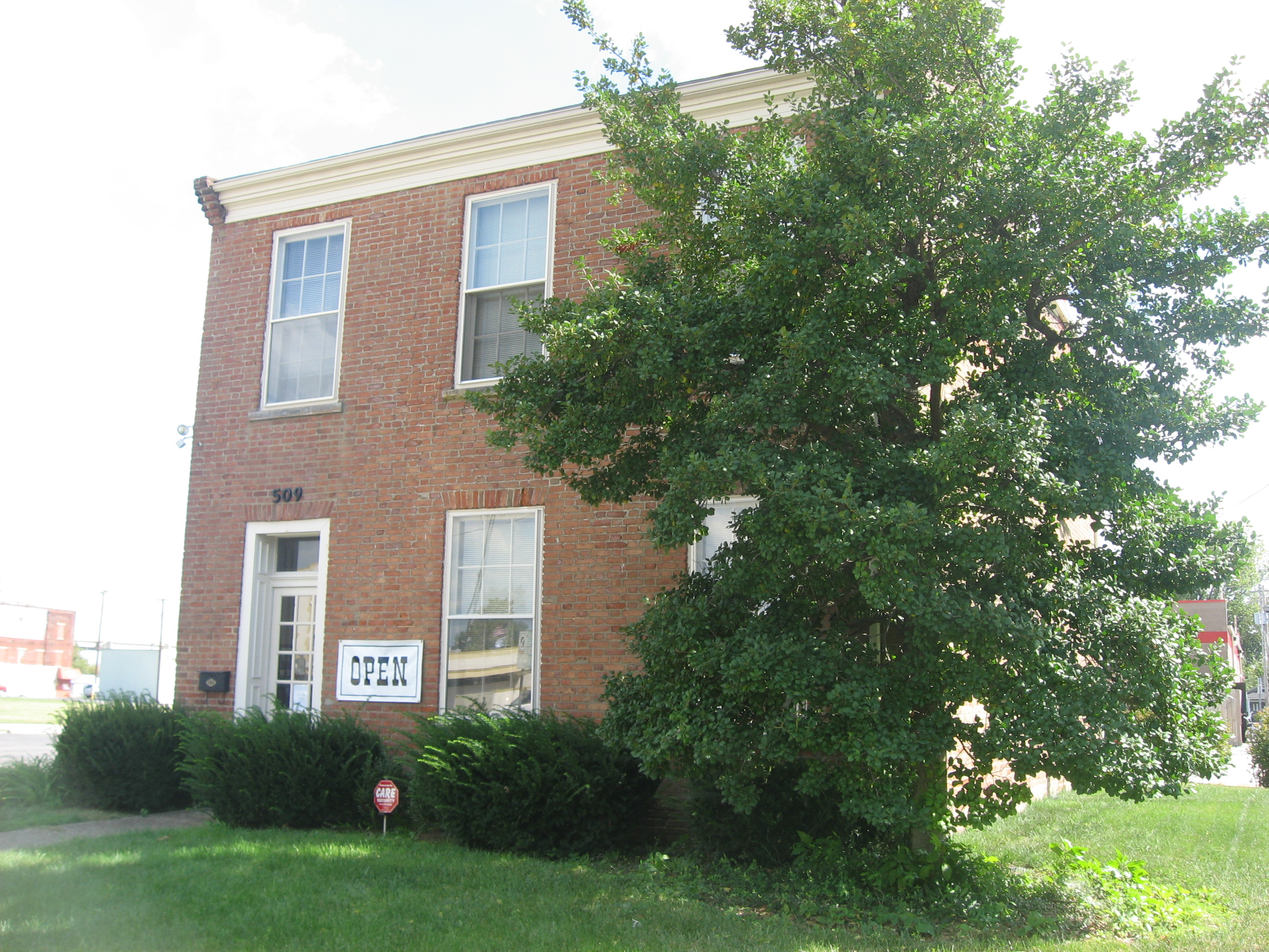 Front of the William Young House, located at 509 W. Market Street in New Albany, Indiana, United States. Built in 1837, it is listed on the National Register of Historic Places.